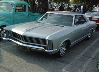 1965 Buick Riviera mild custom